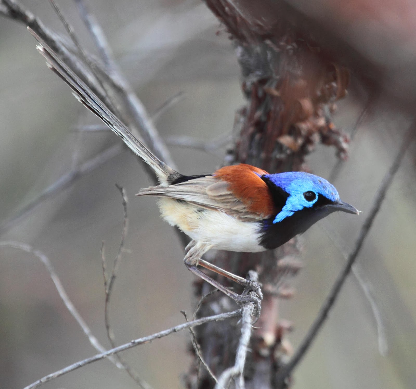 Purple-backed fairywren (Malurus assimilis), Northern Territory, Australia